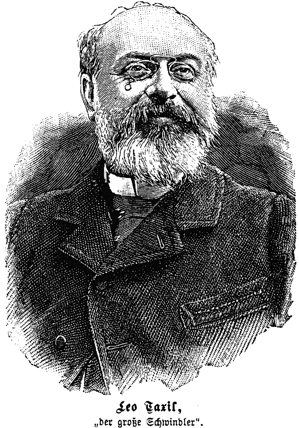 Steel engraving of Léo Taxil